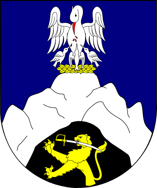 Coat of arms (shield only) of József Félix János Nepomuk Ádám cardinal Batthyány, bishop of Transylvania (1759 - 1760), archbishop of Kalocsa, Hungary (1760 - 1776), archbishop of Esztergom, Hungary (1776 - 1799), bishop of Győr (1783 - 1799)